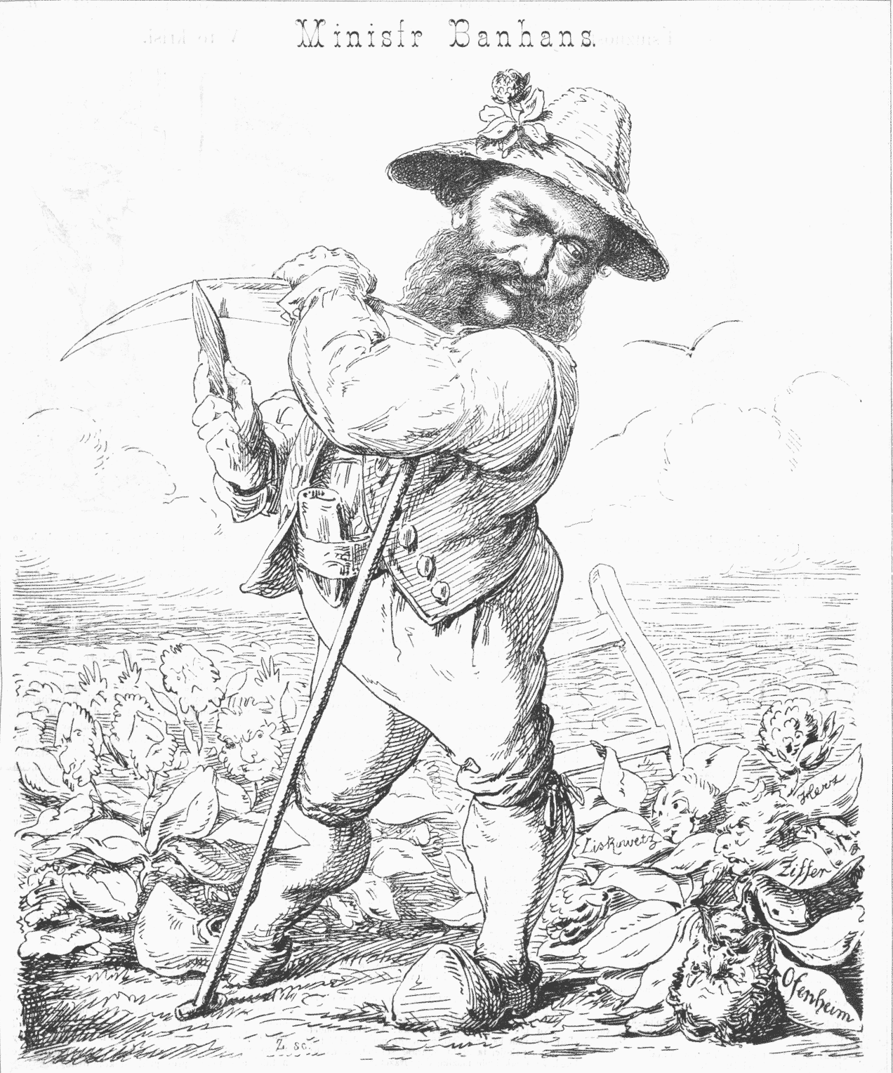 Cartoon of Anton von Banhans, Austrian politician, minister of trade at that time. The cartoon shows him as a mower, going to trim down entrenched interests of certain noble families and ritters (see names on leaves at bottom right). A satiric poem (in Czech) in the same issue praises him for that, while criticizing him for starting too late.